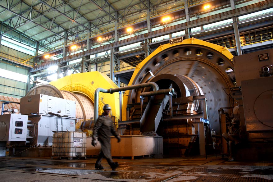 Mills at Paracatu mine in Brazil, 2014.